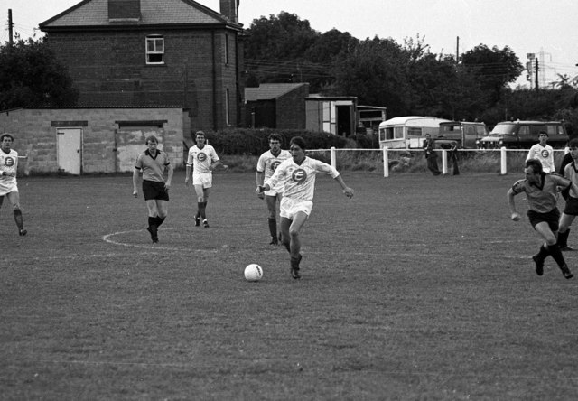 Didcot Town Football Club, Station Road Didcot Town F.C. moved from this ground to Loop Meadow in 1999. The area in the photograph is now under the car park of the Orchard Shopping Centre.